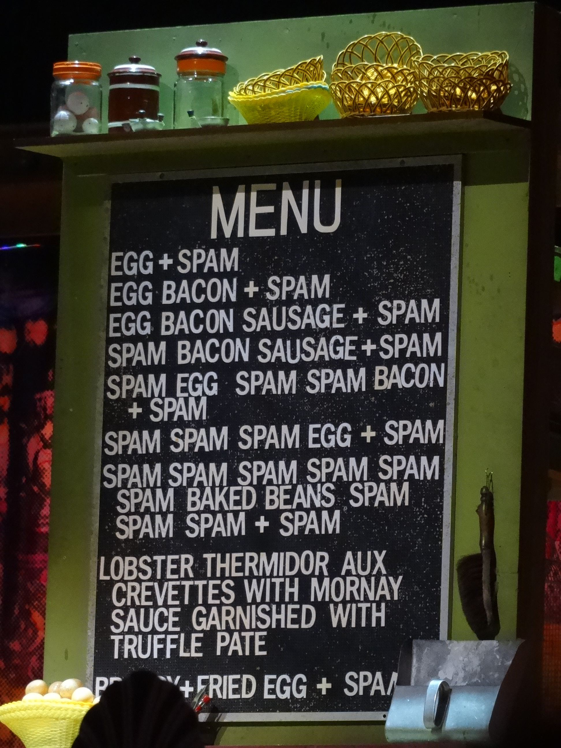 The menu in the “Spam” Monty Python sketch, from which the term for sending unwanted mail derives.